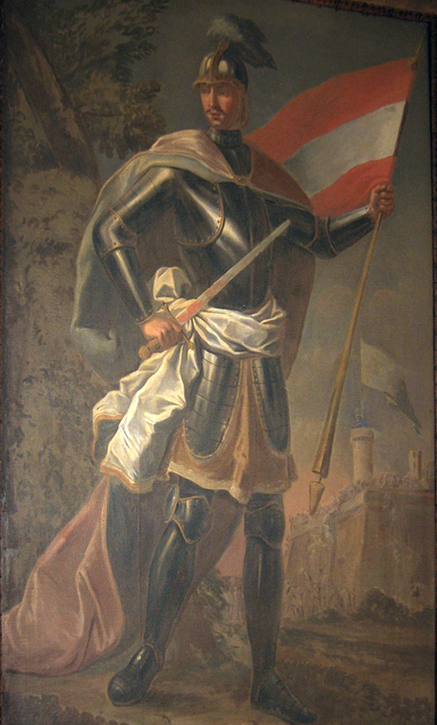 Leopold VI, Duke of Austria